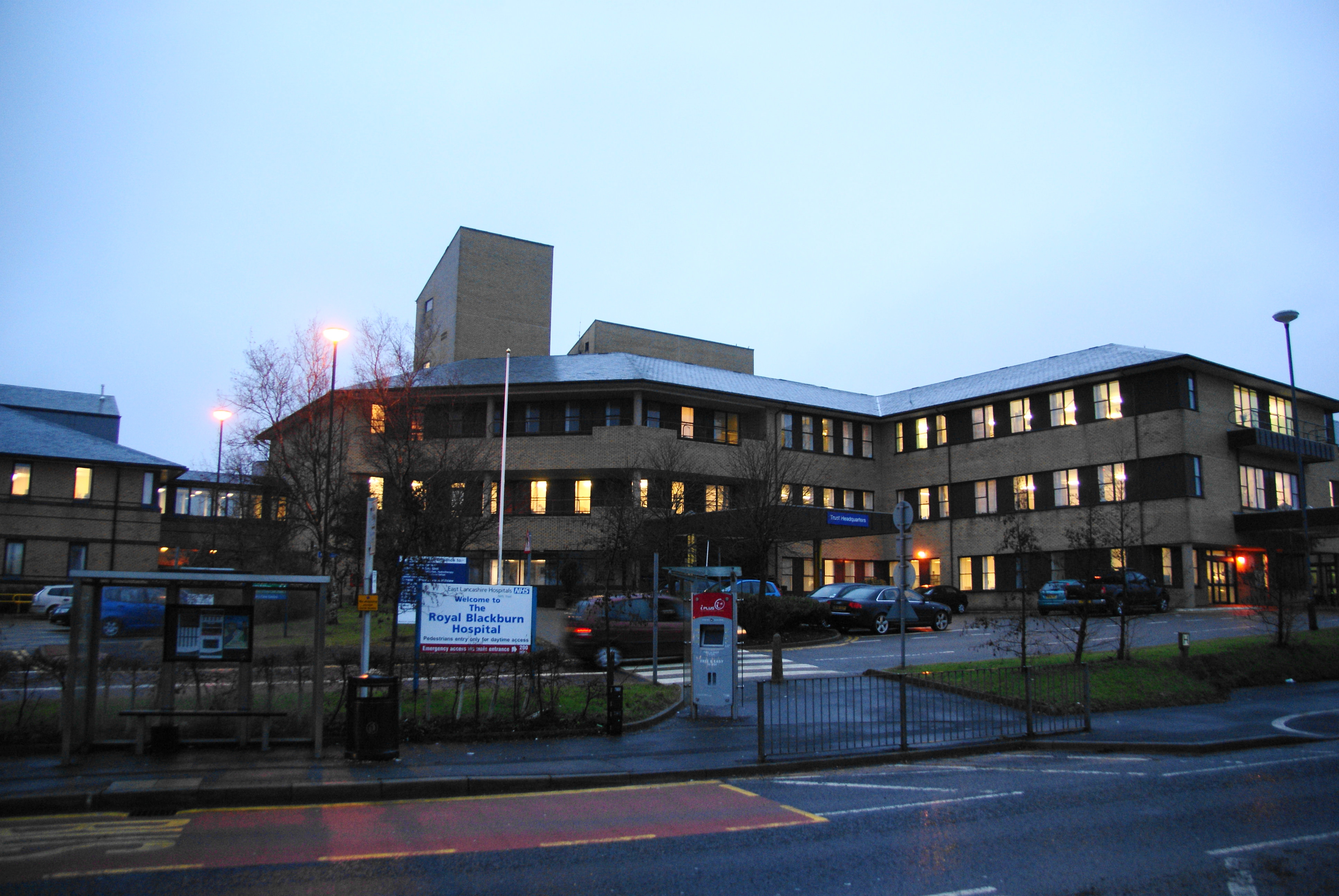 The Royal Blackburn Hospital